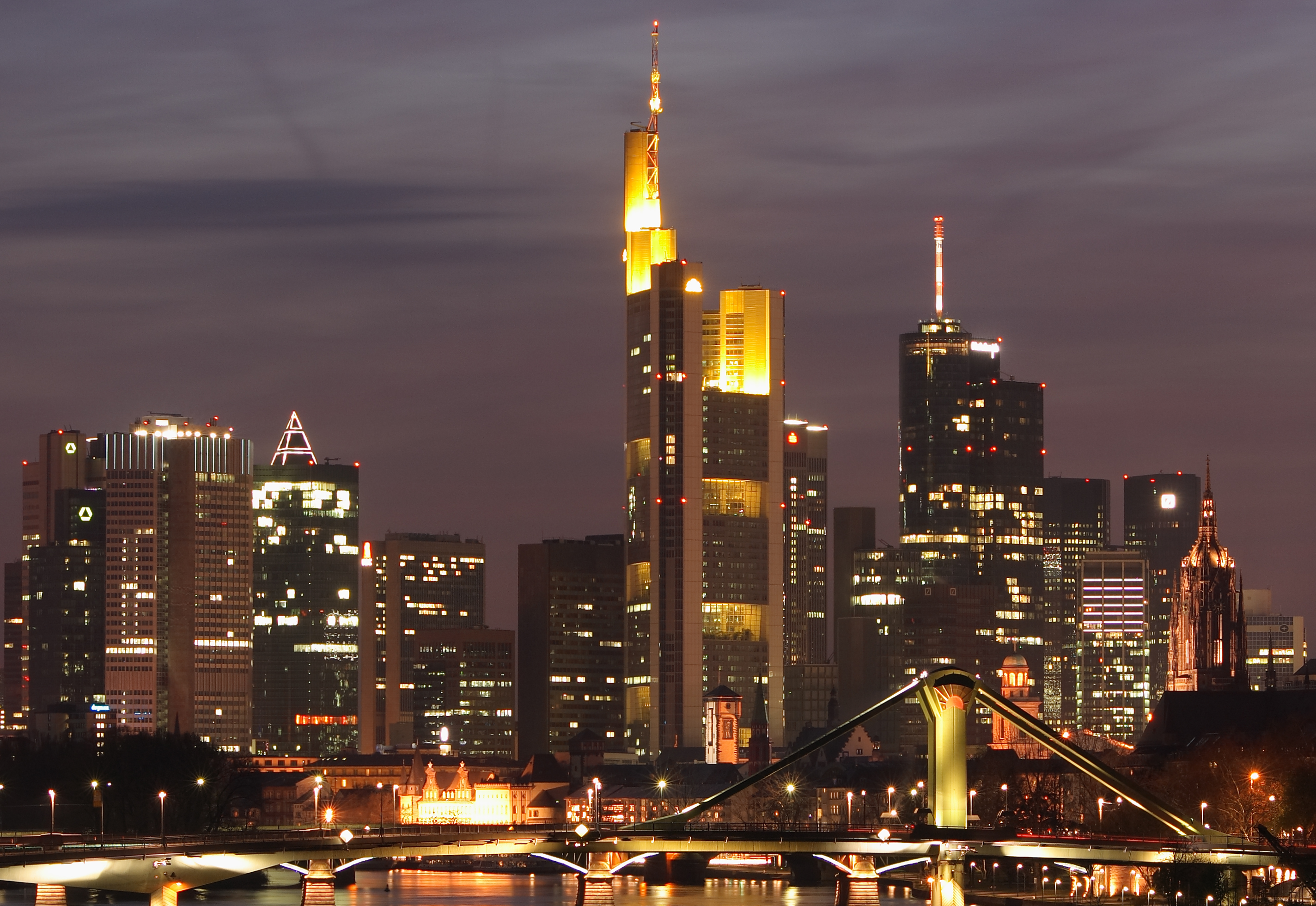 Downtown Frankfurt am Main, Germany; seen from Deutschherrn Bridge.